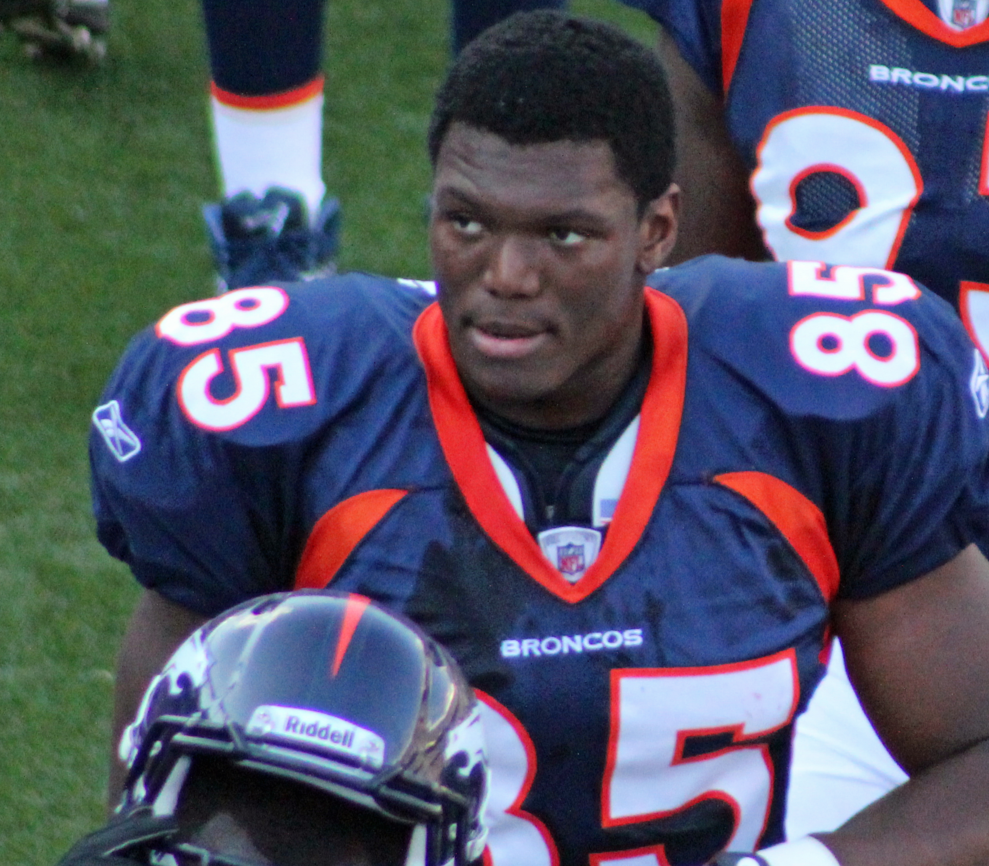 Virgil Green, a player on the National Football League.